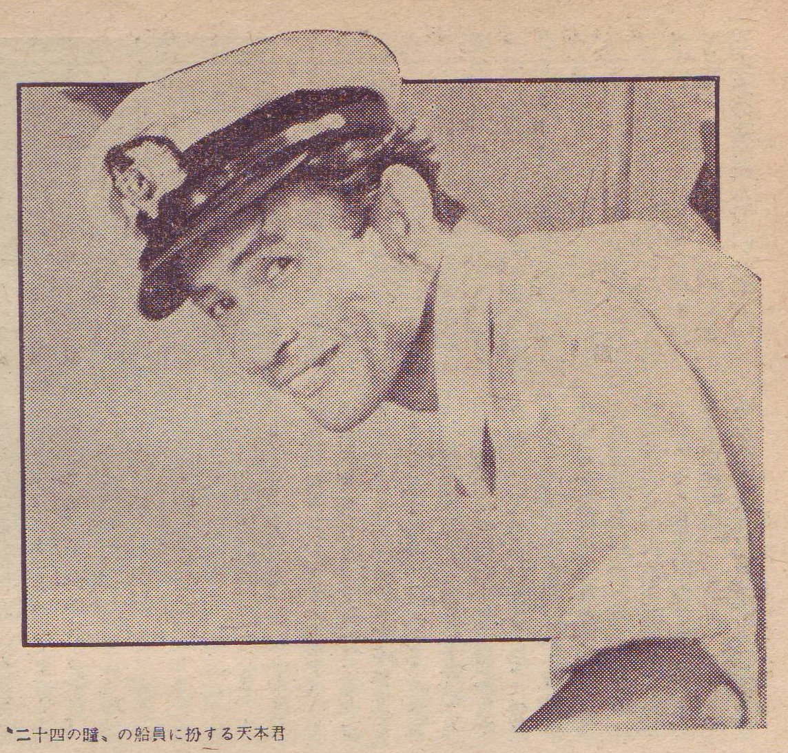 Hideyo Amamoto. taken in 1954.